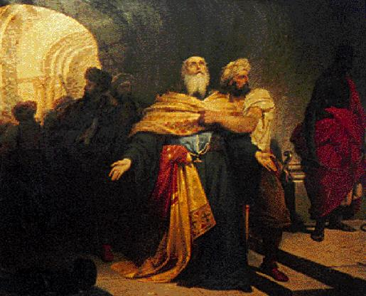 Hanging of Patriarch Gregory V of Constantinople